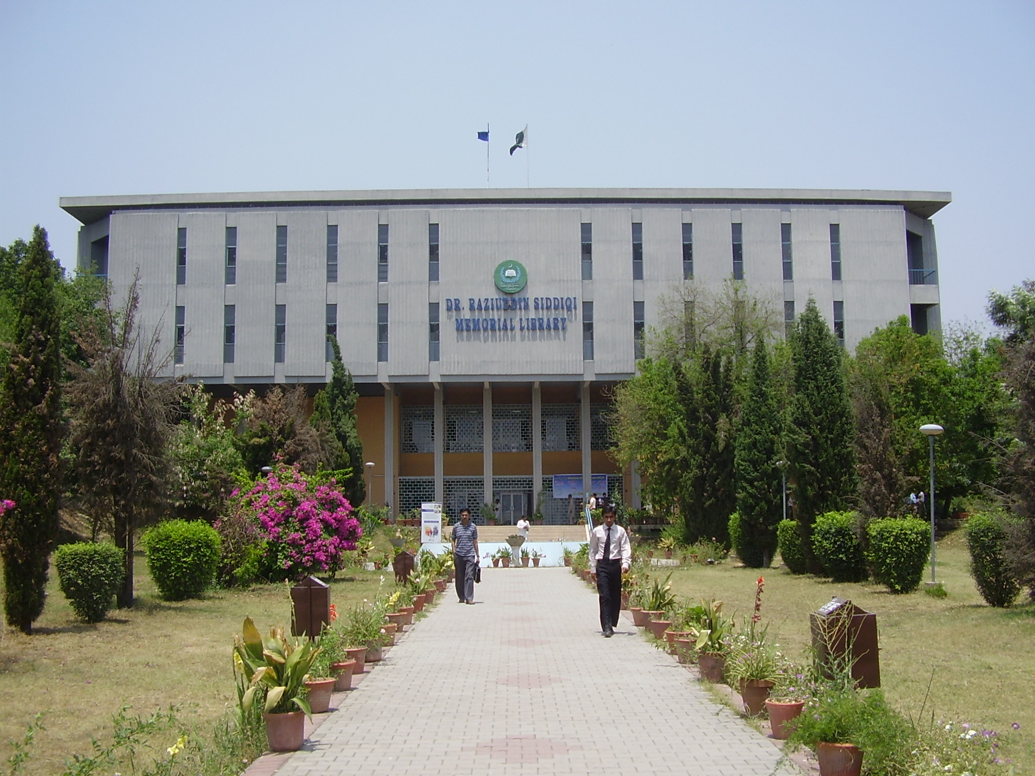 Dr. Raziuddin Siddiqui Memorial Library building, Quaid i Azam University Islamabad Pakistan's main library